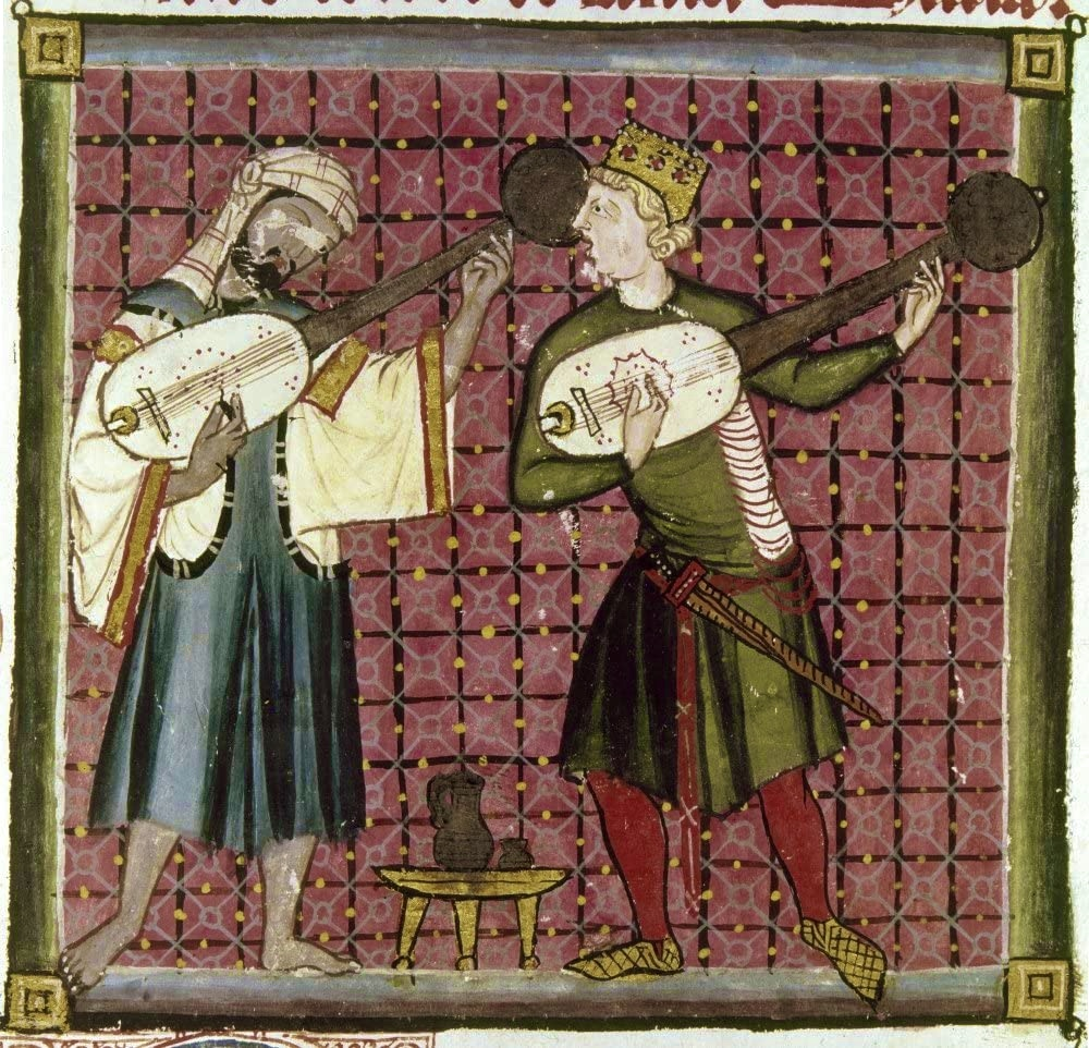 Image from Cantigas de Santa Maria of European and Islamic musicians in 13th century playing stringed instruments. Canticle n°120. 13th century. Madrid, San Lorenzo de El Escorial library (MONASTERIO-BIBLIOTECA-COLECCION).